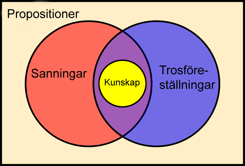 Translation of Classical-Definition-of-Kno.svg to Swedish